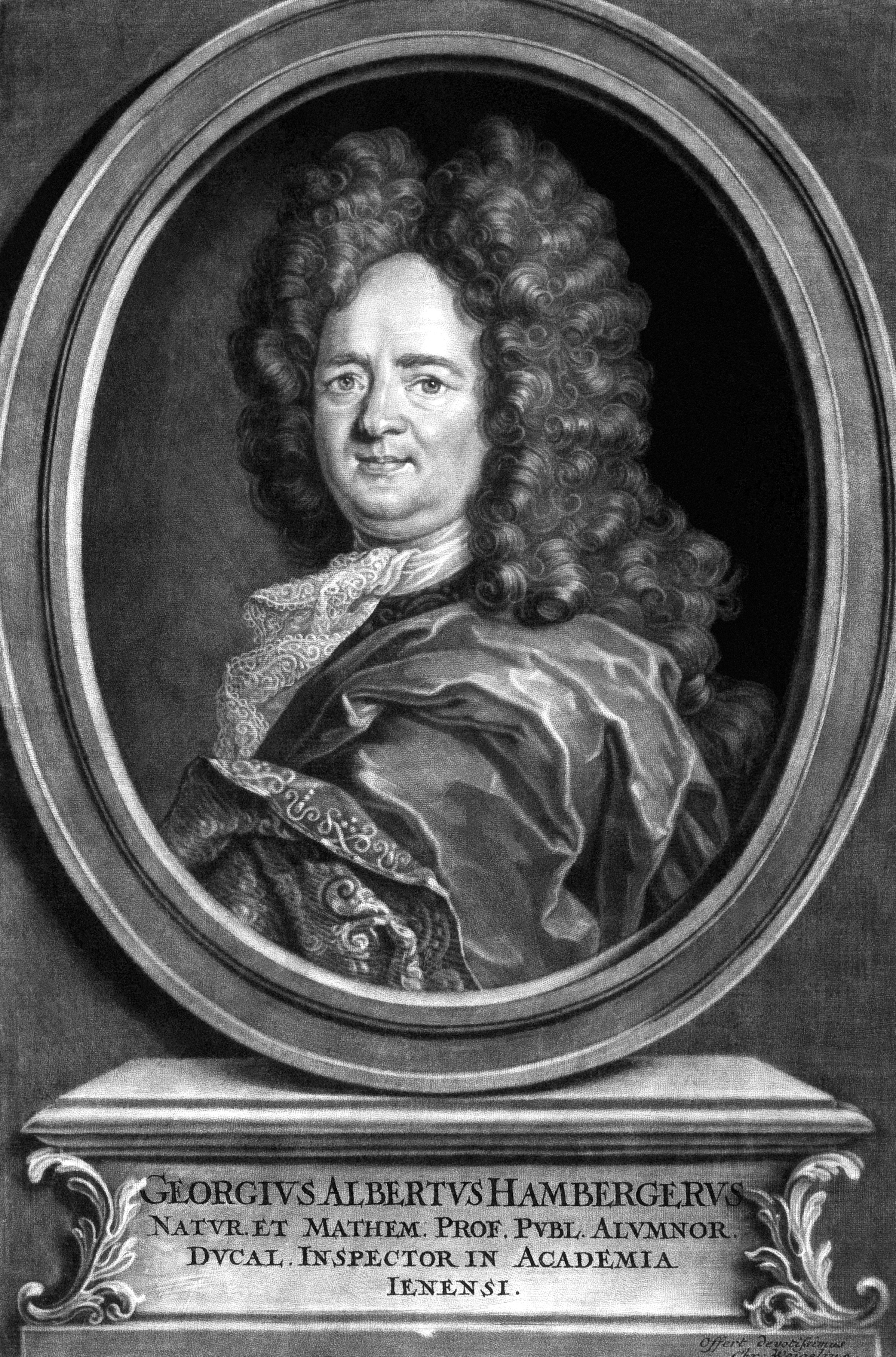 Georg Albrecht Hamberger (1662-1716) german Mathematician and Physicist